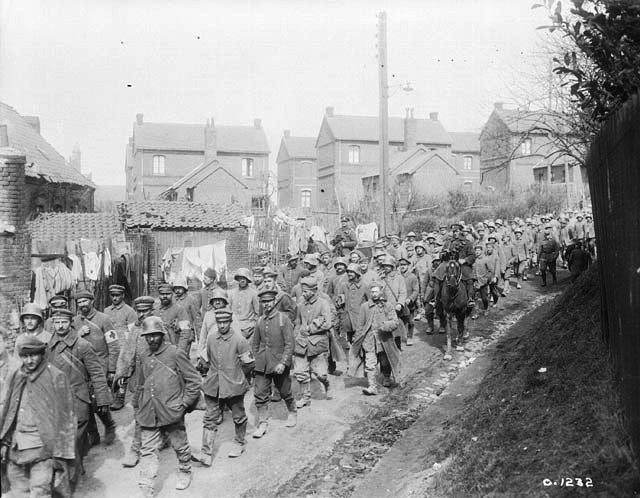 German prisoners of war on the march to confinement areas behind the Canadian lines.